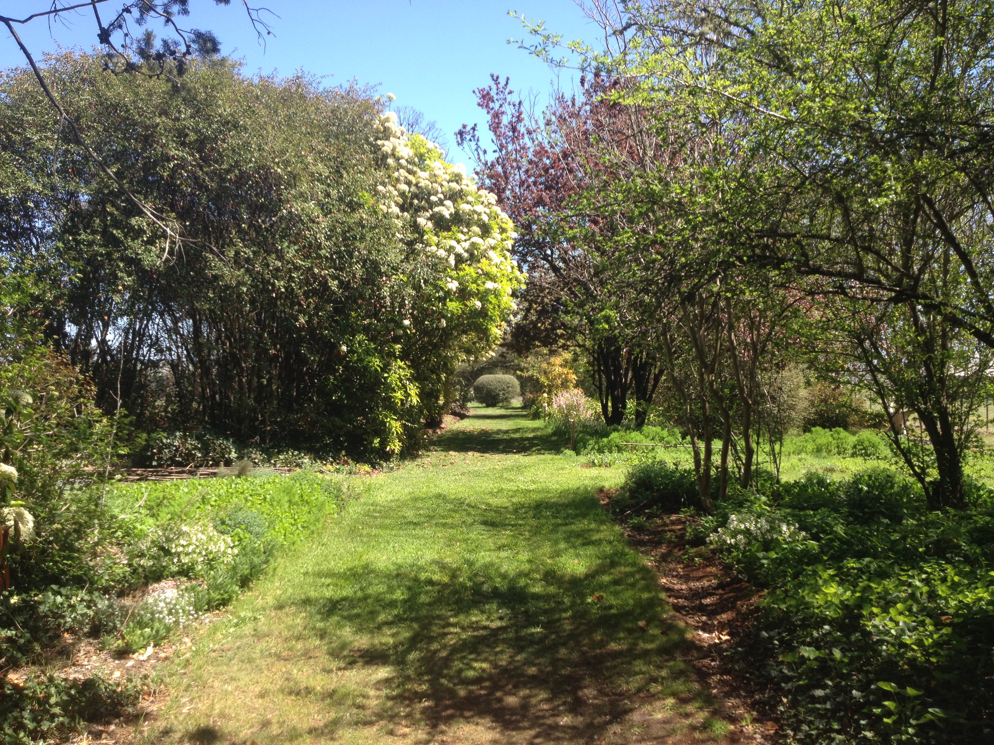 The Picking Garden at Saumarez Homestead, NSW Australia.